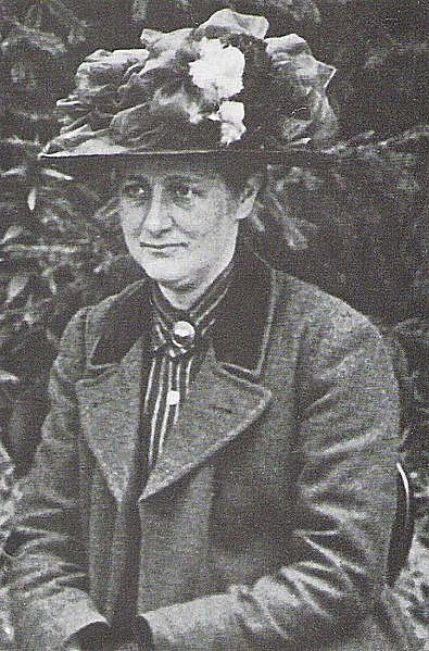 Photo of Beatrix Potter 1912